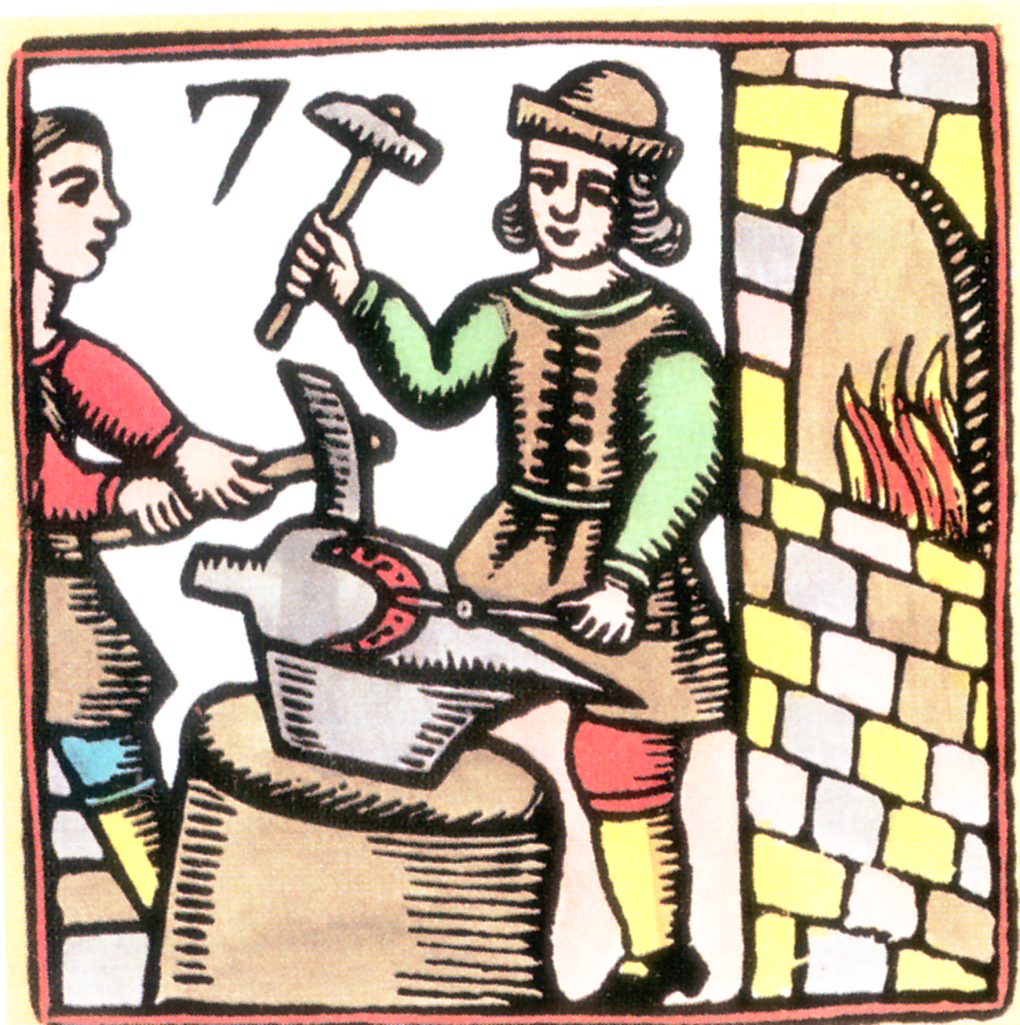 Series of Catalan popular tiling from anonymous designs originals since the 17TH century. Els rajoles dels oficis; Museums of art in Barcelona (newsletter in catalan); pages 193]